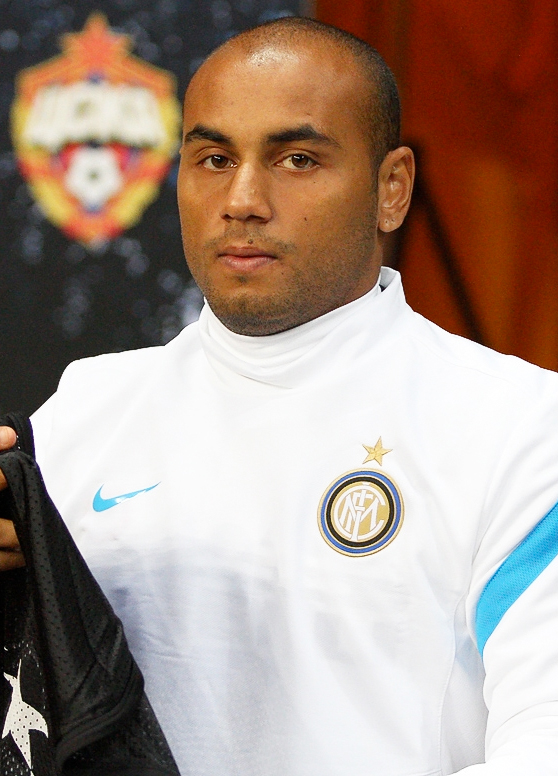 Jonathan Cicero Moreira prima di una partita di Champions League contro il CSKA Mosca, a Mosca.